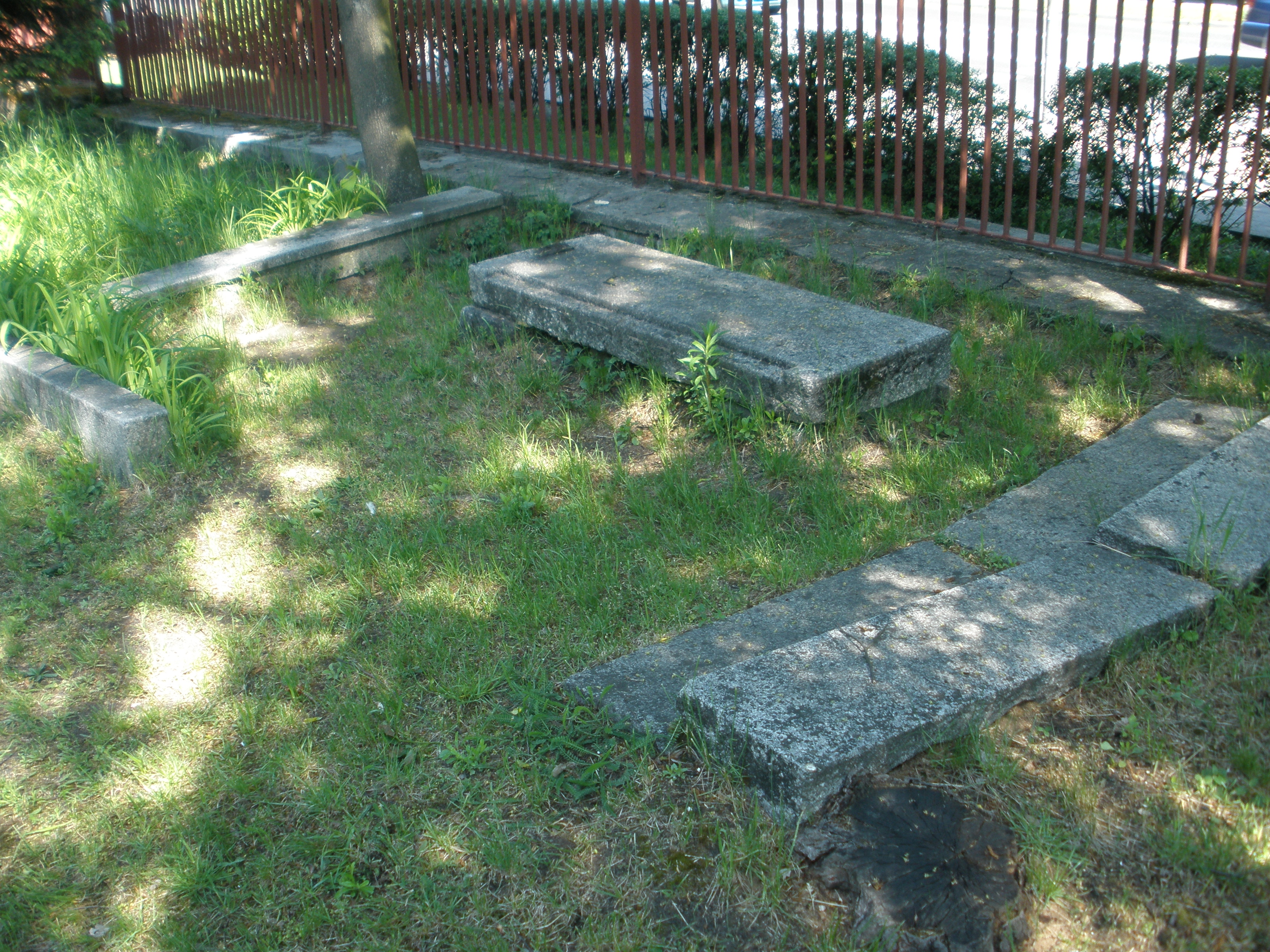 Stone stair - the only remains of the headmaster's villa on the campus of ILO in Stargard Szczeciński.